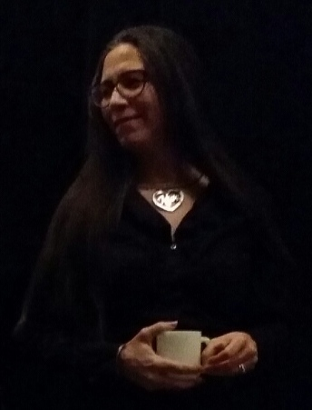 Skawennati photographed in Montréal , Québec, Canada at the Lumière collective.